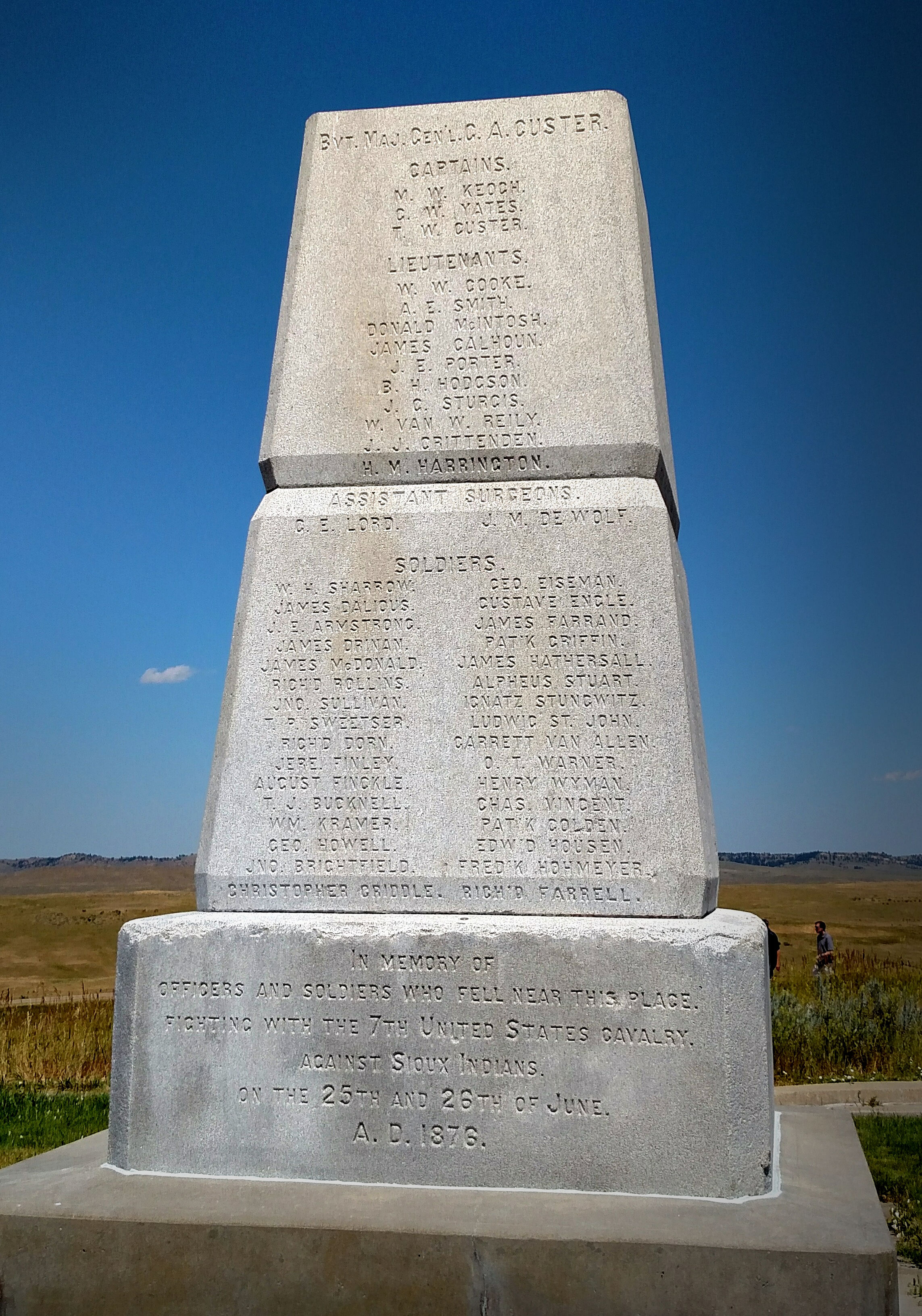 East side of memorial erected to commemorate the fallen soldiers, scouts, and civilians who fell and those who are buried at Little Bighorn Battlefield National Monument, Crow Agency, MT.